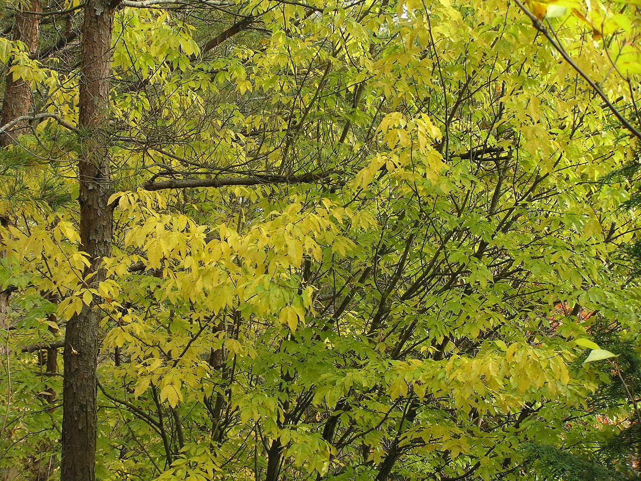 Evodiopanax innovans,タカノツメ (ウコギ科)